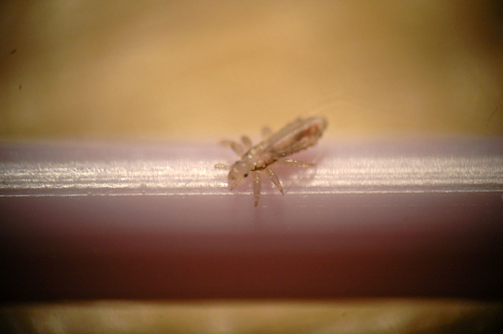 Pediculus humanus capitis, Head louse